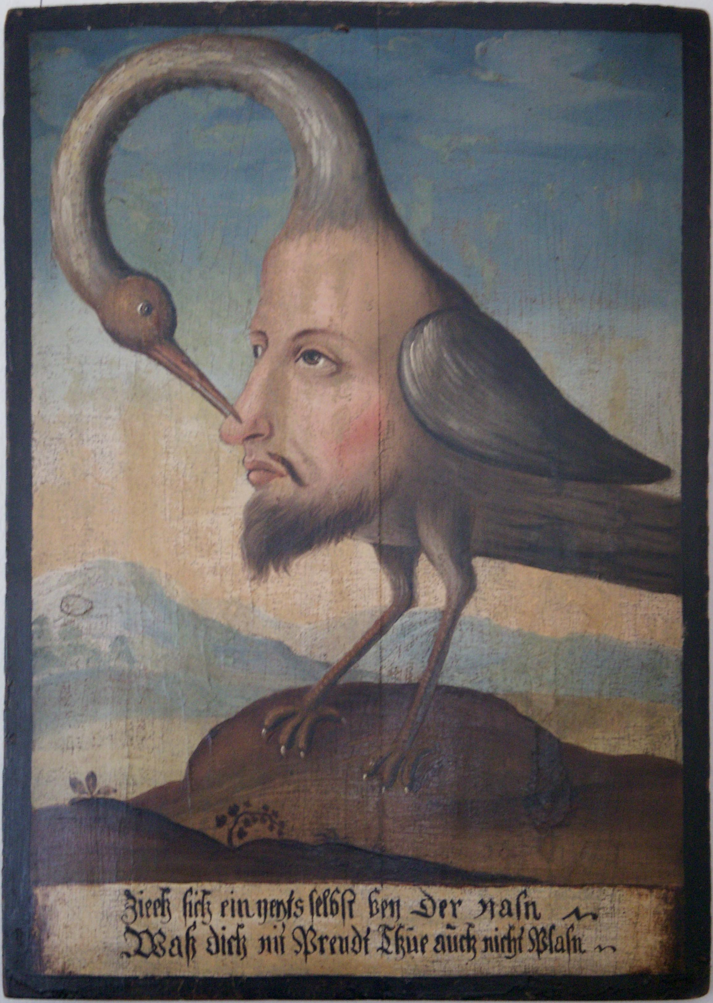 This painting (oil on wood) from the last third of the 17th century alludes to the popular proverb "Nimm dich selbst bei der Nase" ("take yourself by your nose"). It's also called "Vogel Selbsterkenntnis" (Bird of self-knowledge) and exists in several samples (three, at least, in that same museum). Inscription: Zieeh sich ein yeydts selbst bey Der nasn -- Waß Dich nit Prendt Thue auch nicht Plasn. Hochdeutsch: "Ziehe jedermann [ein yedts ist sächlich und bedeutet beide/alle drei Geschlechter] sich selbst an der Nase[n] Was Dich nicht brennt [sollst] Du auch nicht blasen [=: 'das Brennen durch Beblasen verringern wollen'; wörtlich: "tue [es] auch nicht blasen"]."